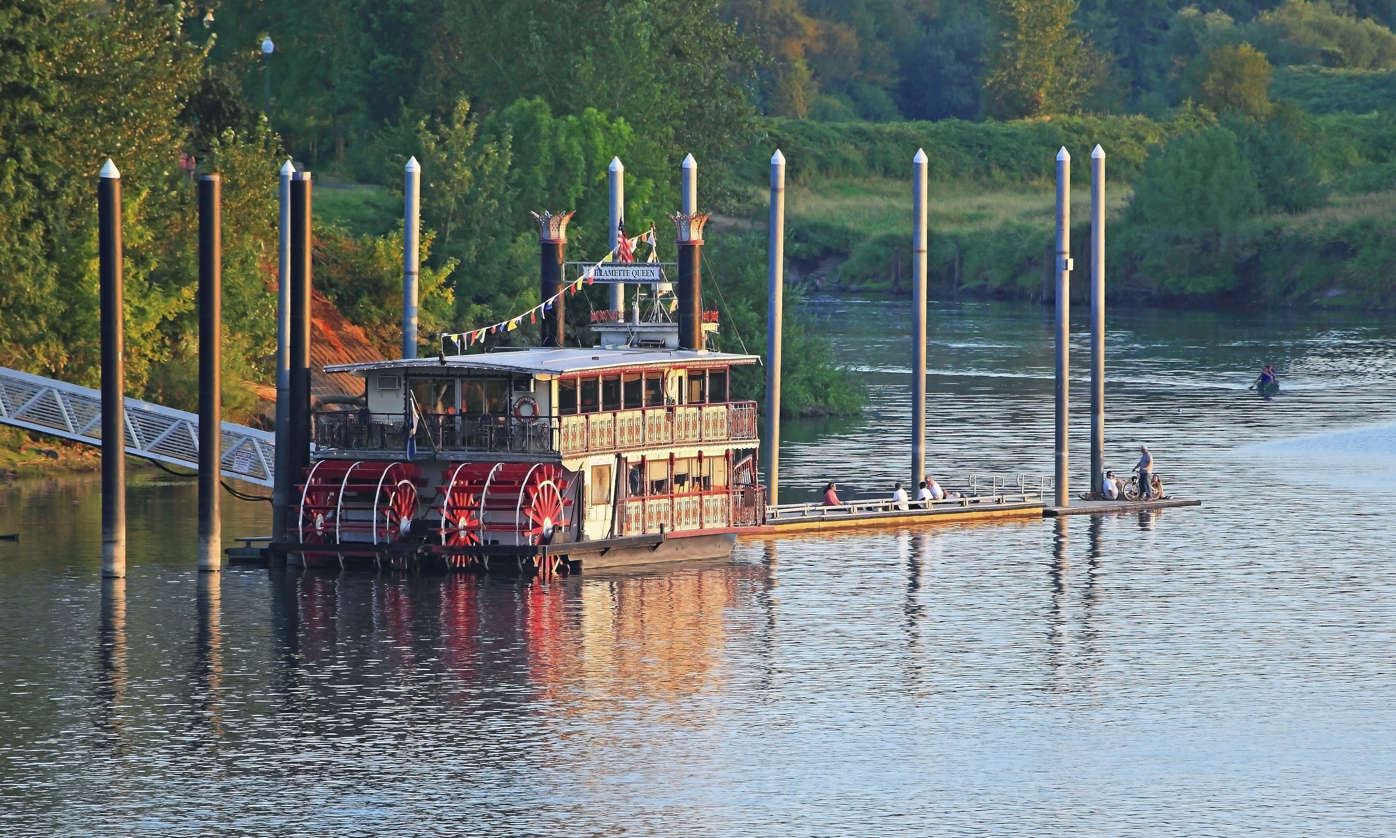 The Sternwheeler Willamette Queen moored at Riverfront Park in Salem, Oregon.